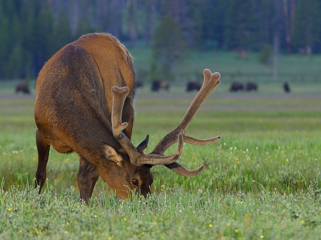 An Elk at Gibbon Meadow, Yellowstone National Park.